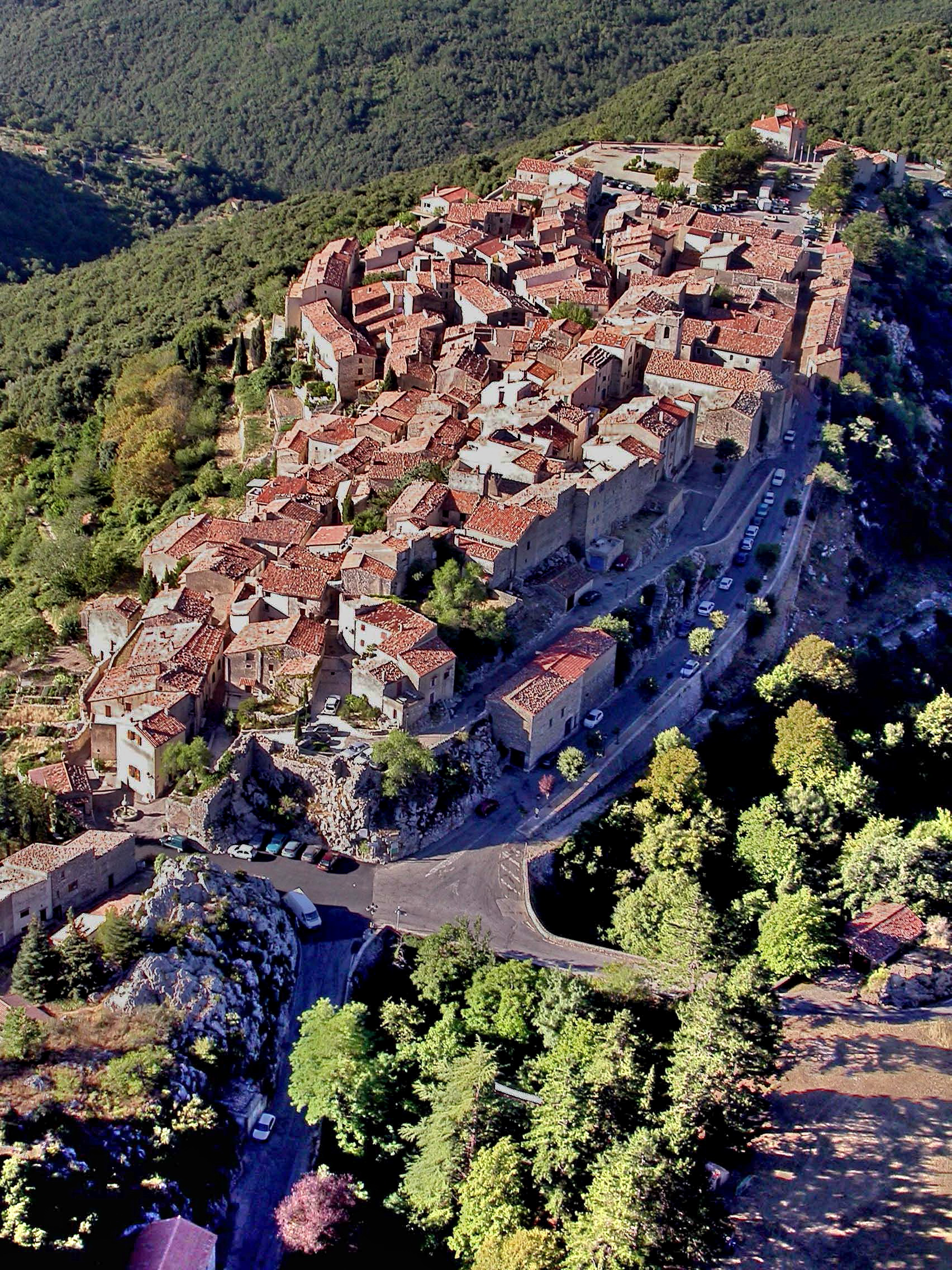 Mons(Var) aerial view